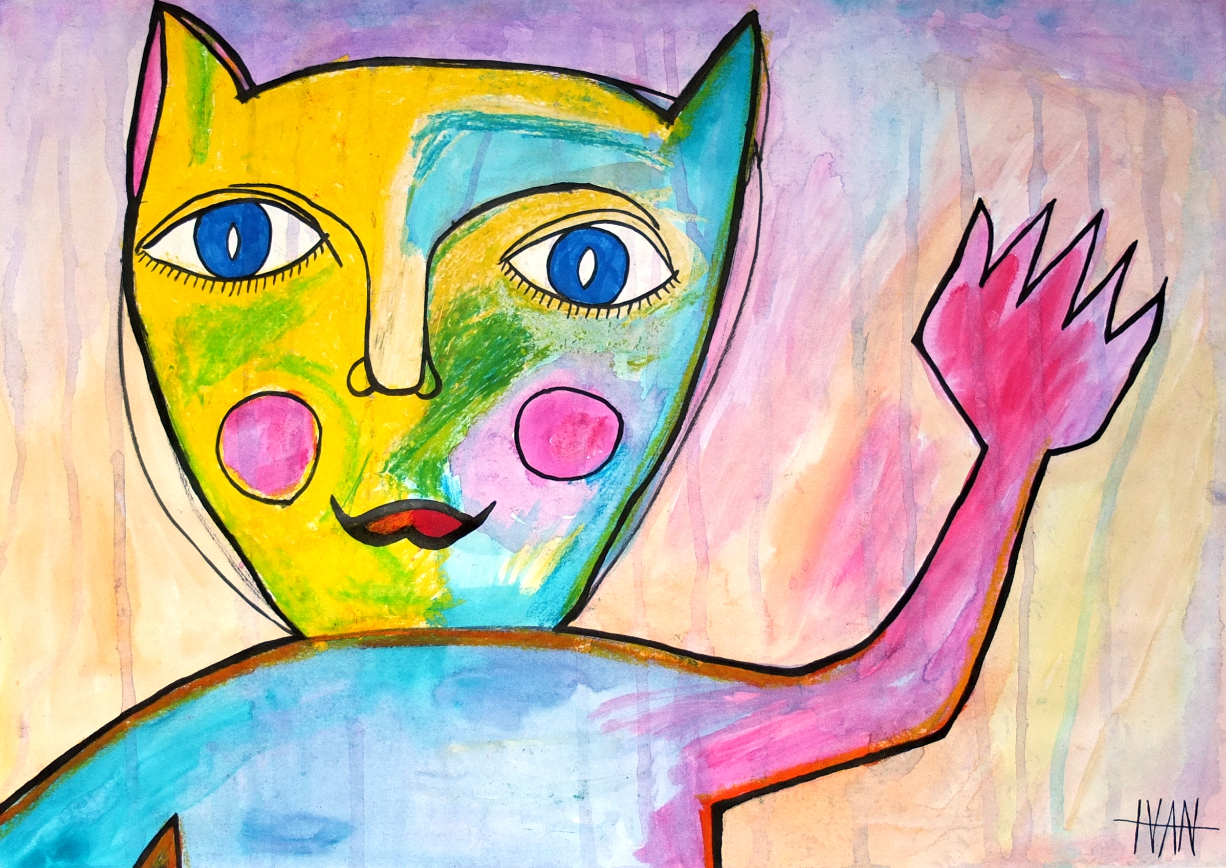 Abstract Painting of a Cat.